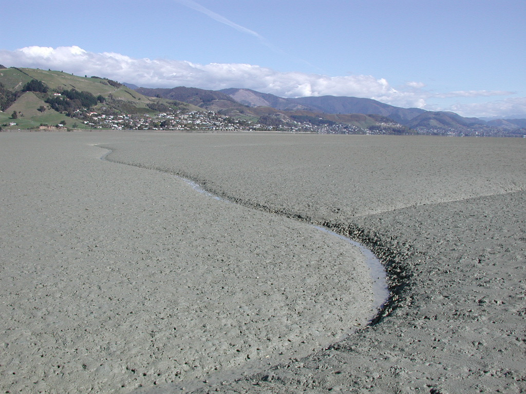 Water channels in the mudflats of Nelson Haven at low tide, Nelson in the distance